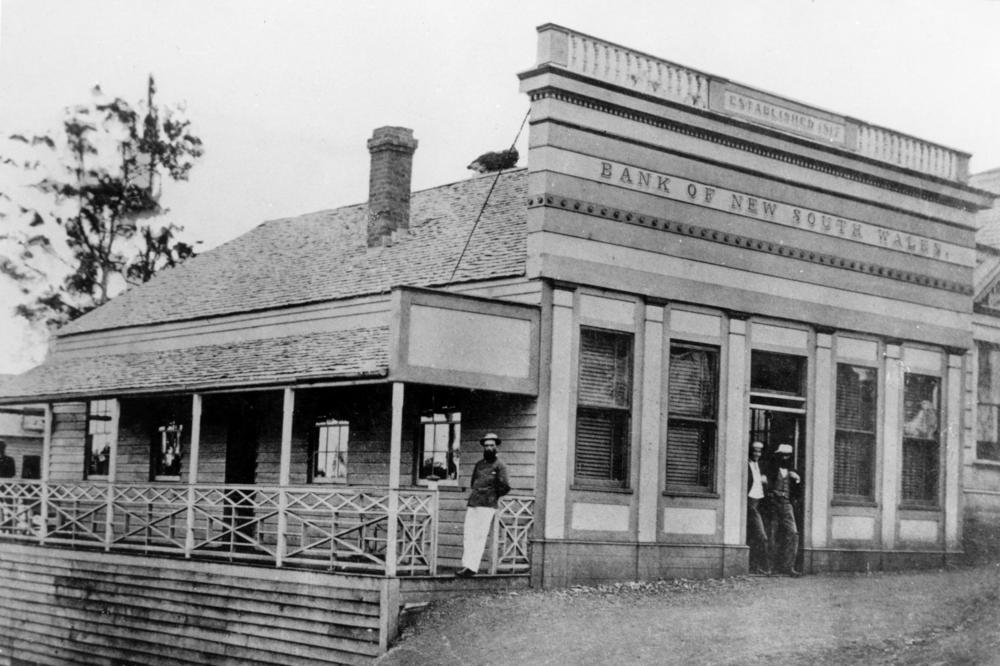 Bank of New South Wales, Gympie, ca. 1872 The bank is a wooden building with brick facade. The side aspect of the bank has a verandah with decorative railings. On either side of the street entrance, the bank's sash windows are covered with wooden blinds. Gympie is a city in south-eastern Queensland, situated on the Mary River about 162 kilometres north of Brisbane. Gympie is the centre of an important dairying and agricultural district. In the early days timber was a significant industry.